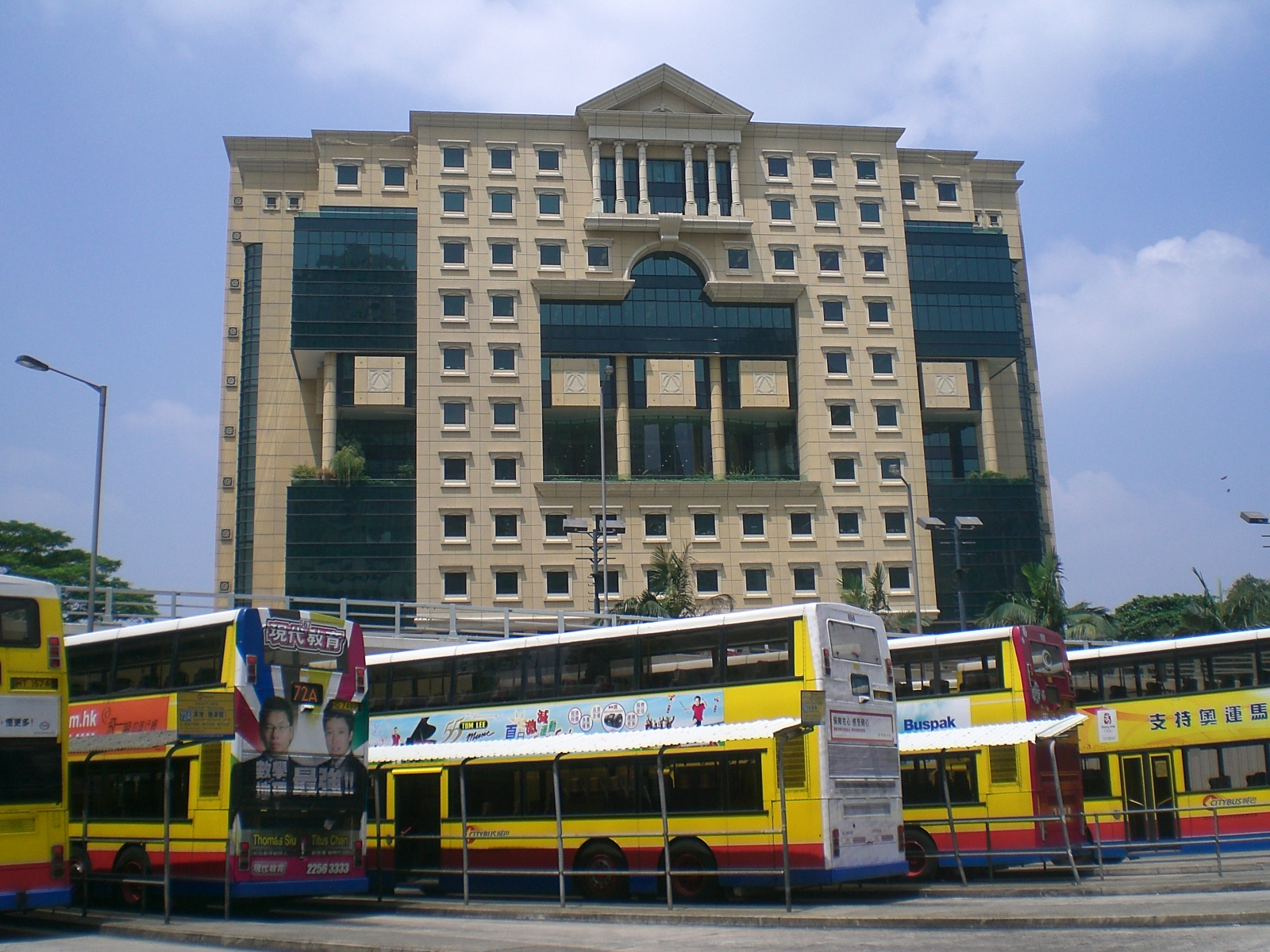 銅鑼灣zh:香港中央圖書館及銅鑼灣 (摩頓台) 巴士總站